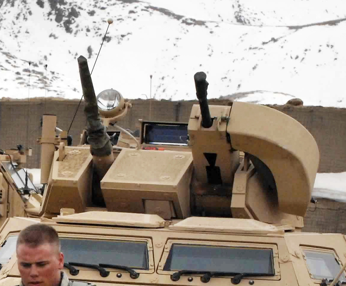 cropped from Cadillac gage 1 metre turret, mounting a machine gun and an automatic grenade launcher. Alternatively, this turret can also mount a 30 caliber machine gun paired with a 50 caliber machine gun.